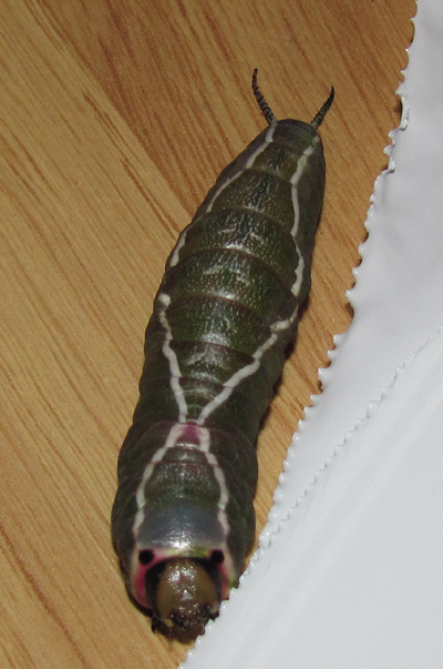 Cerura vinula maggot found in Pyhäjärvi, Finland.